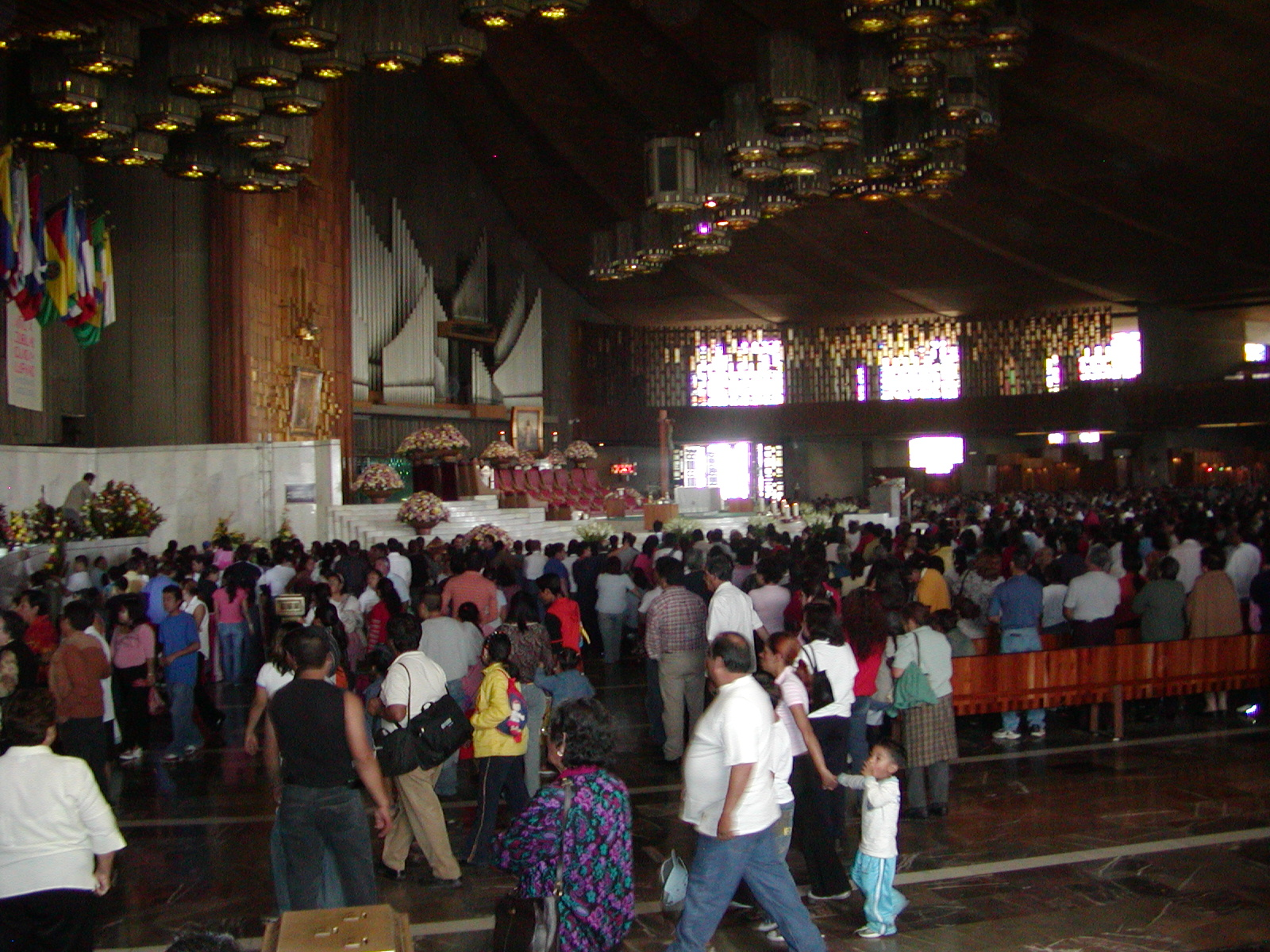 Our Lady of Guadalupe Basilic interior in the Sanctuary of our Lady of Guadalupe.